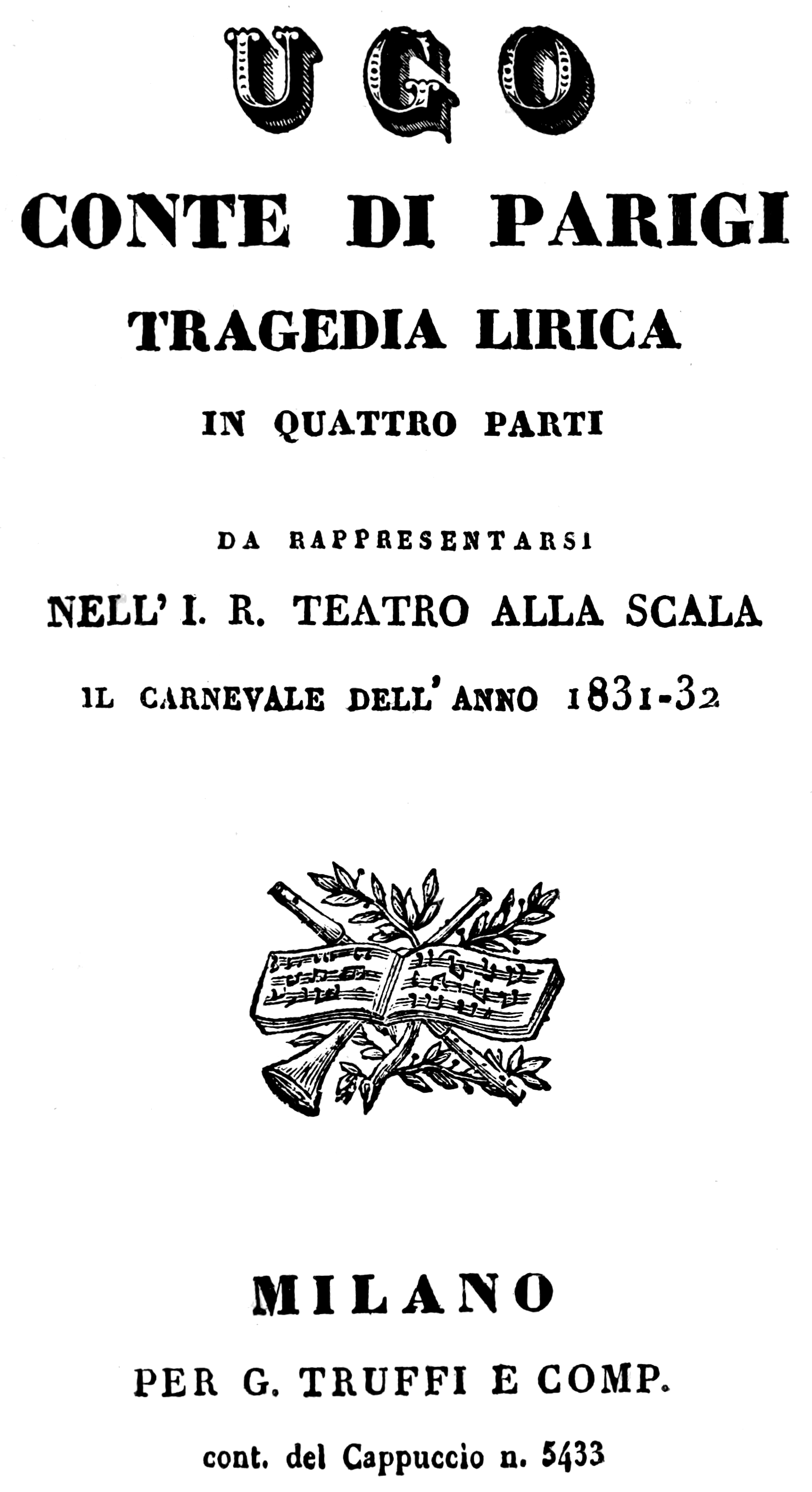 Gaetano Donizetti - Ugo, conte di Parigi - titlepage of the libretto, Milan 1832